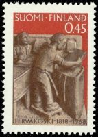 Tervakoski paper in Finland mill 150 years